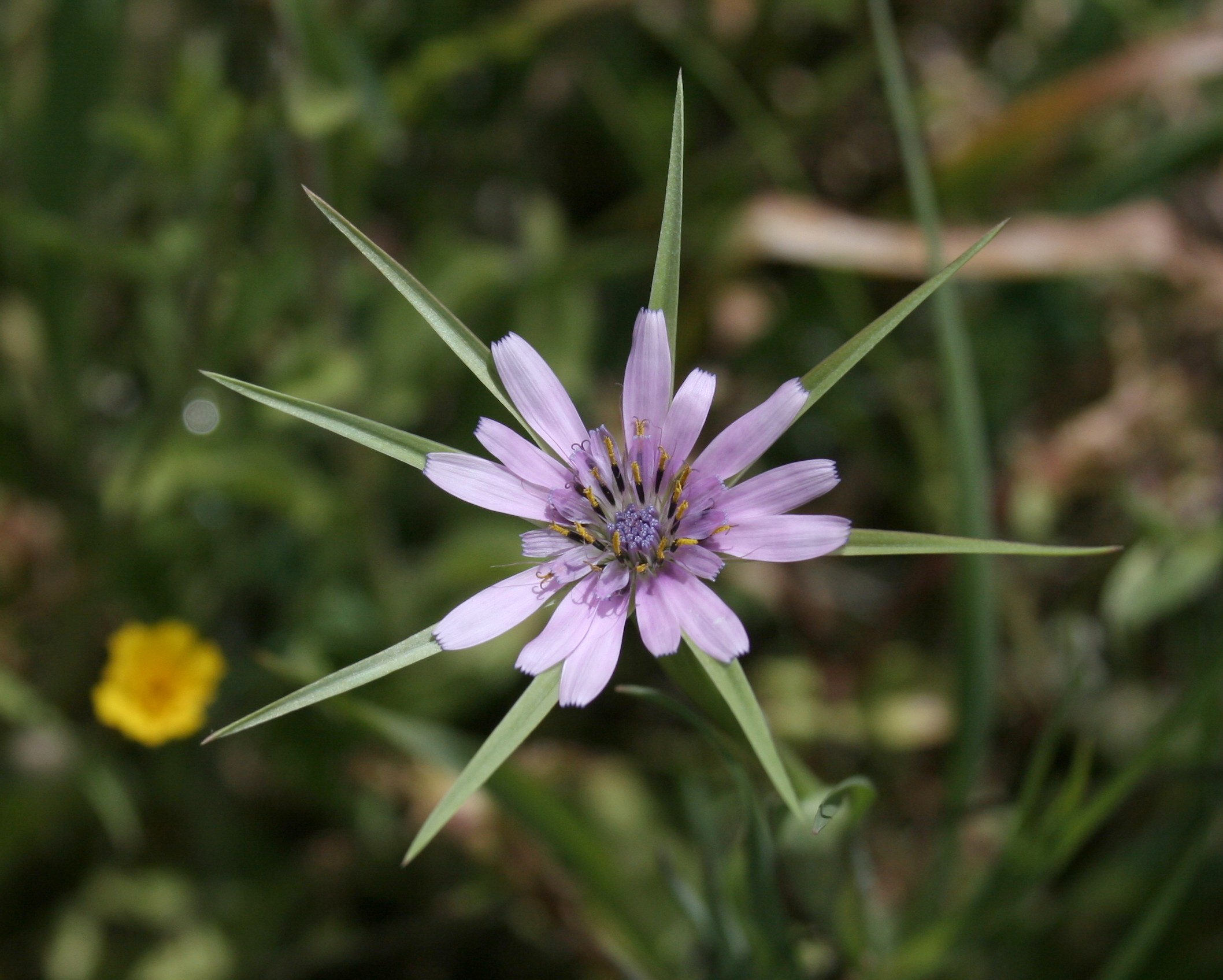 Tragopogon_hybridus